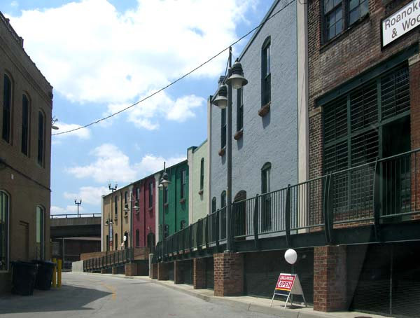 Roanoke Warehouse Historic District listed on the National Register of Historic Places in Downtown, Roanoke, Virginia, USA